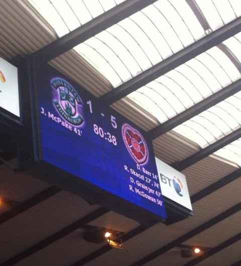 The Hampden Scoreboard at the end of the 2012 Scottish Cup Final